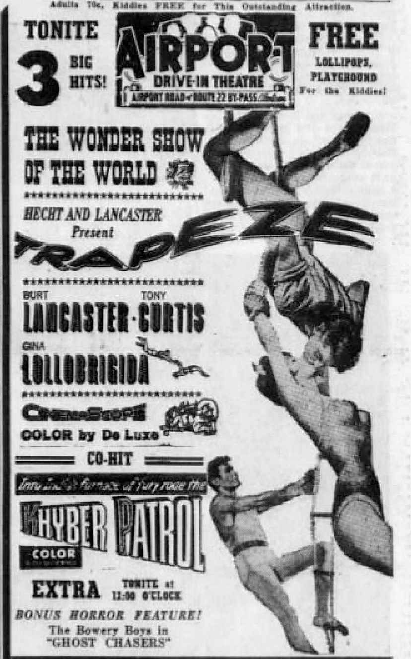 Airport Drive-In theater advertisement for the films Trapeze (1956) and Khyber Patrol (1954) - 17 Aug. 1956 Morning Call, Allentown PA